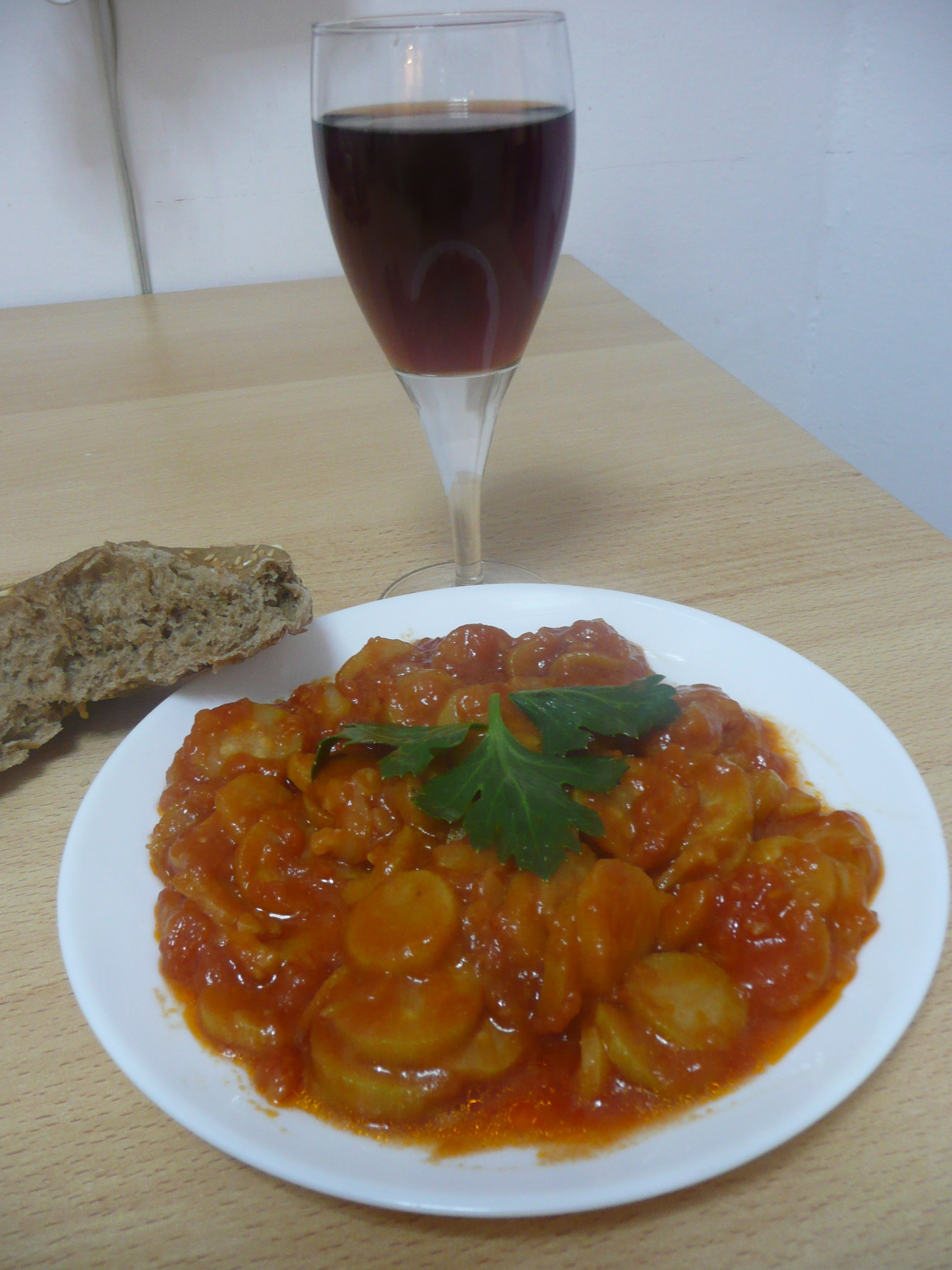 Anginara a sepharadi food from the balkans made from Zucchini